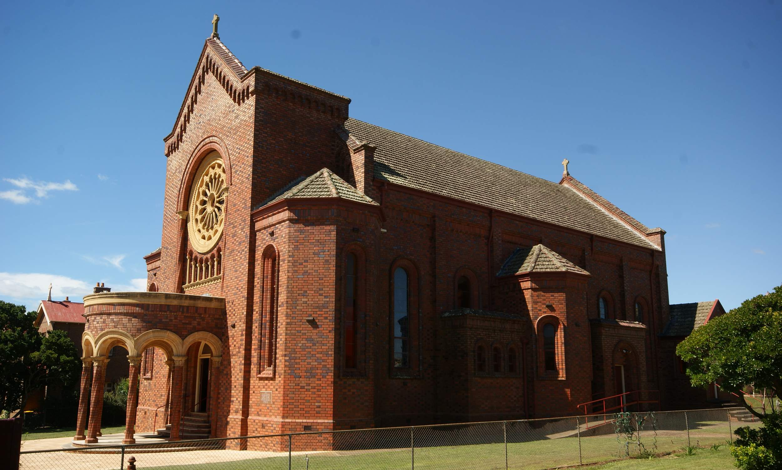 Roman Catholic Church of Christ the King in Taralga, New South Wales, Australia.